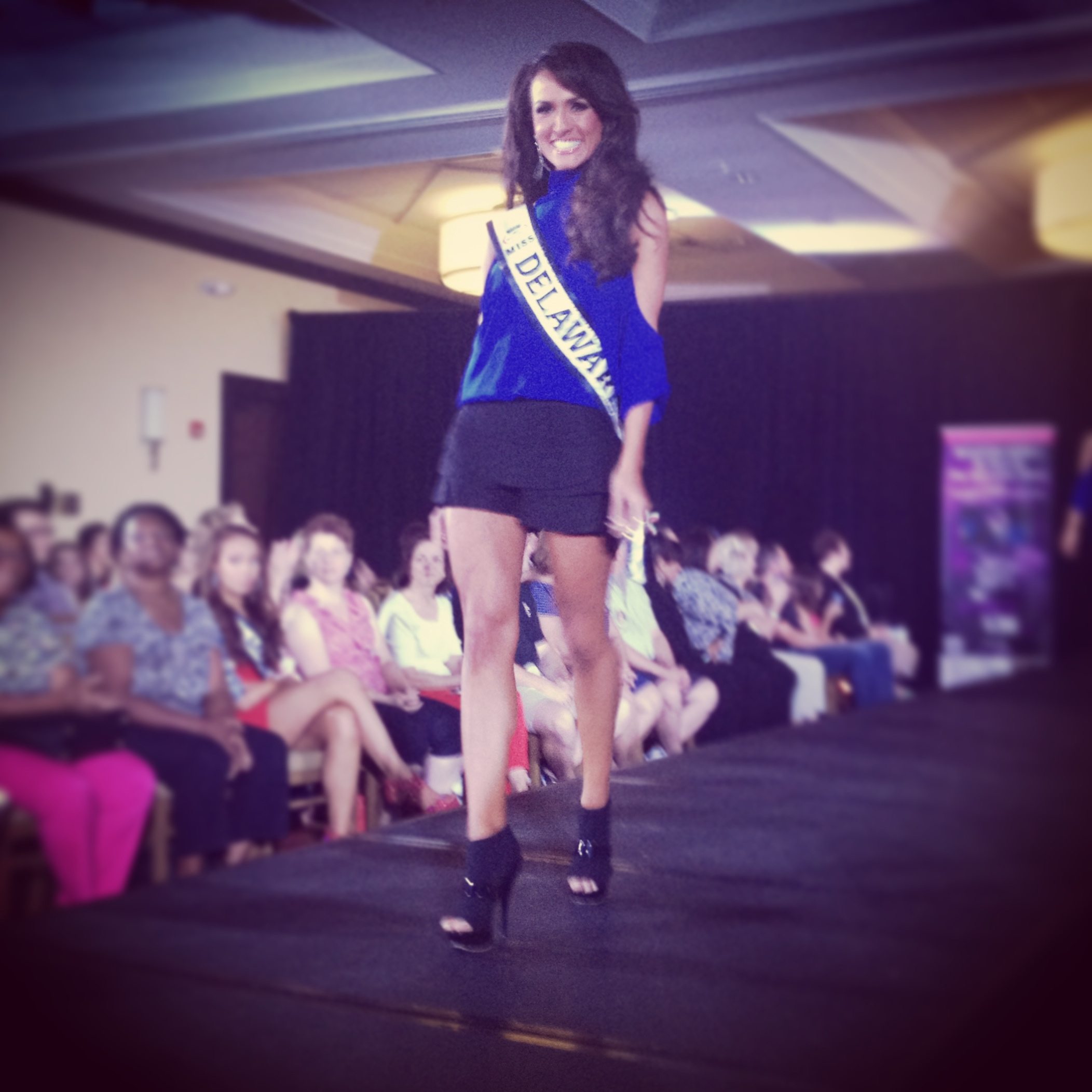 Vincenza walking the Runway at Miss Unites States in DC